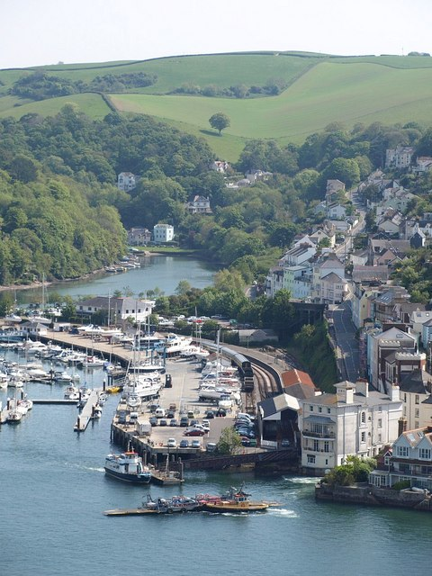 Kingswear and its railway station, photographed from above Dartmouth. The Passenger Ferry is alongside its pontoon, whilst the Lower (vehicle) ferry is just leaving for Dartmouth. Lower Street climbs away from the riverside. For more information see the Wikipedia article Kingswear.